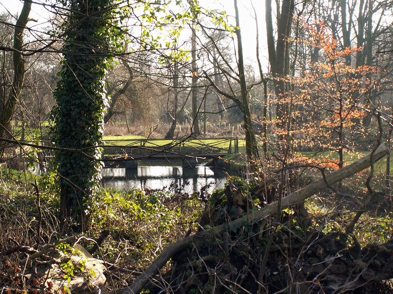 Chad Brook, Edgbaston Golf Club from Edgbaston Park Road